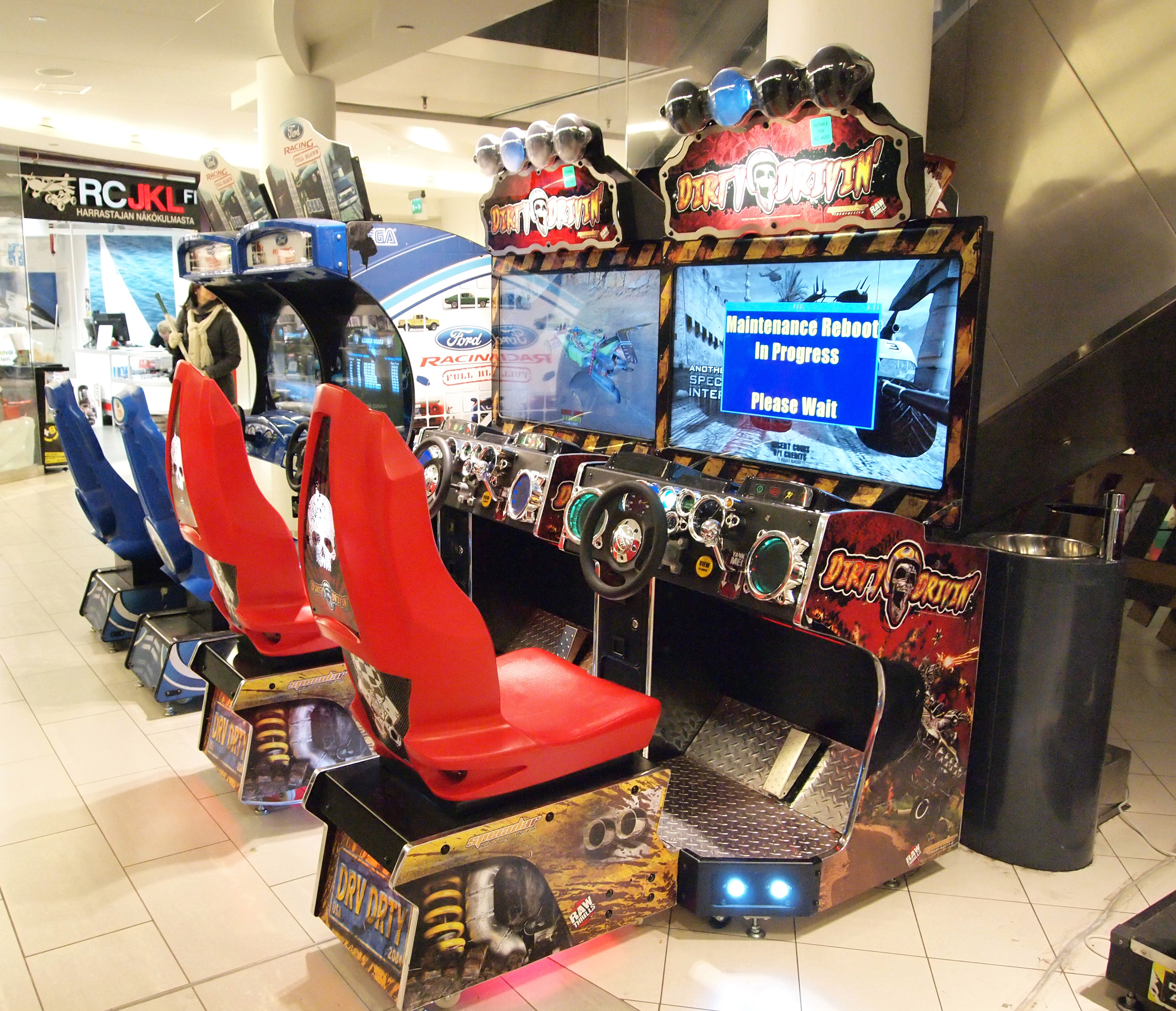 Racing arcade game in Forum shopping mall, Jyväskylä.